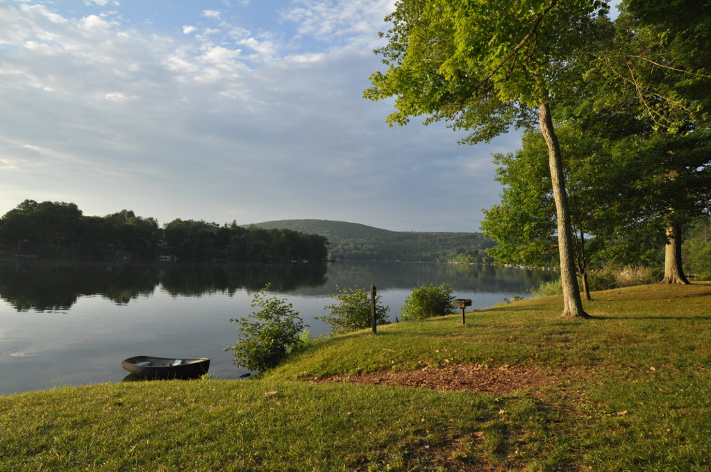 Lake Waramaug State Park, Kent, Connecticut. Mount Bushnell is visible in the background.